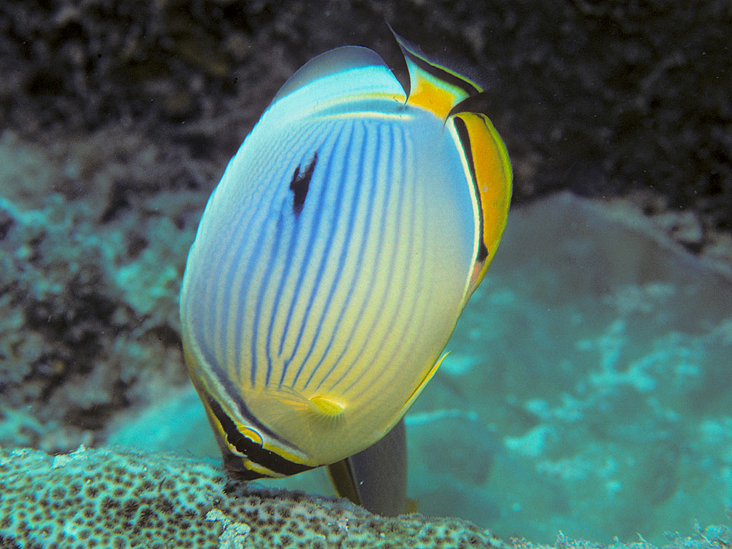 Chaetodon trifasciatus, Melon butterflyfish. Underwater photograph, Pemba island, Tanzania, Africa.